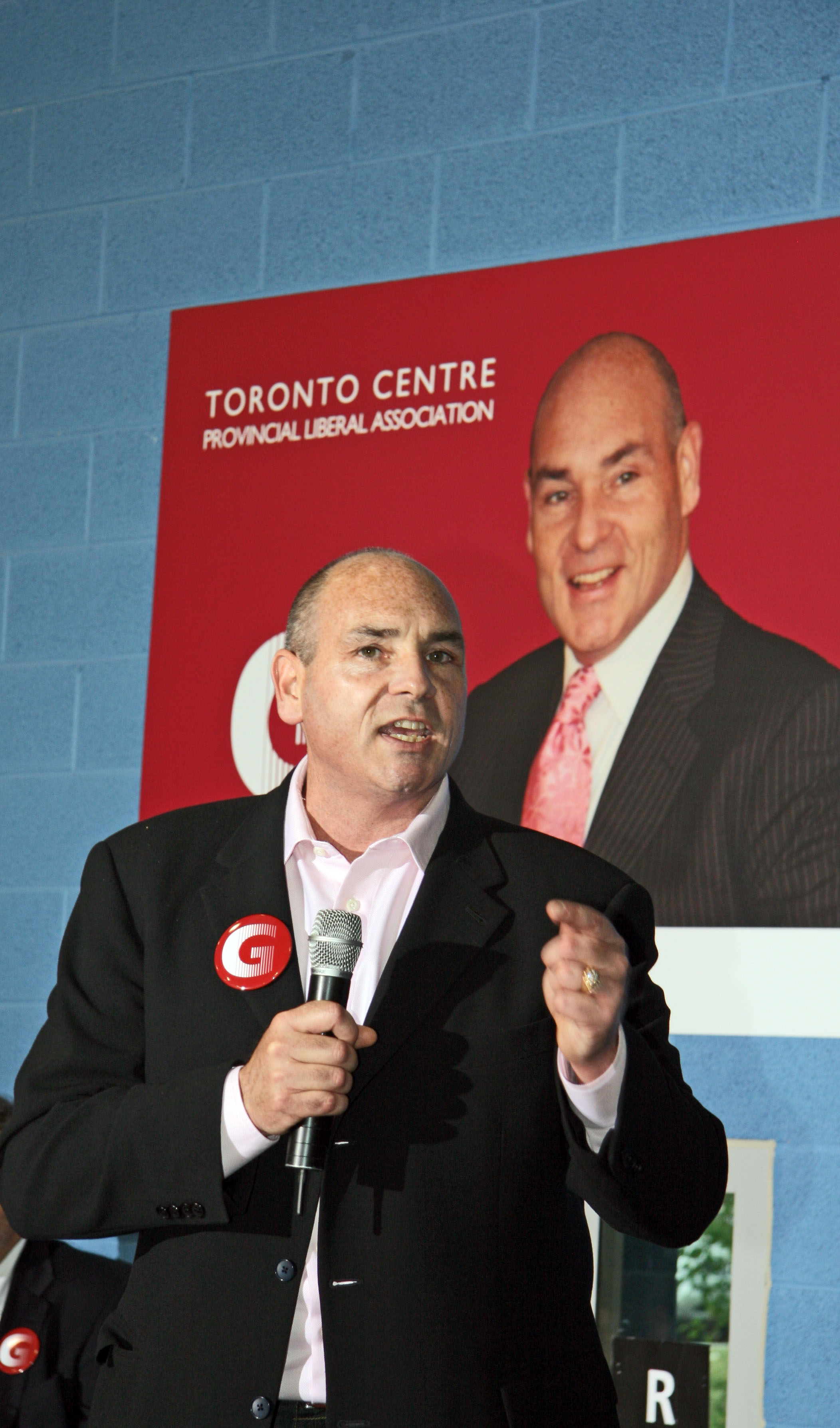 George Smitherman in Toronto, Ontario, Canada